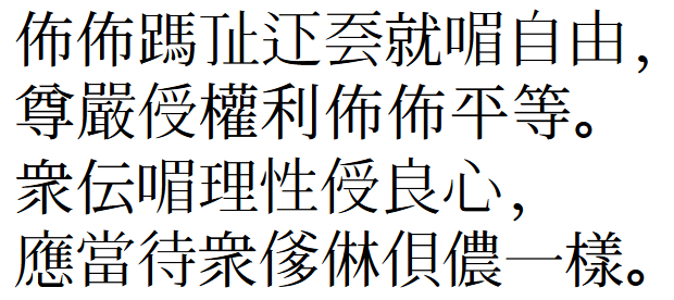 Universal Declaration of Human Rights in Zhuang Sawndip. The file changes 4 characters in File:Universal Declaration of Human Rights Zhuang Sawndip Traditional variant.jpg to variants noted in 《古壮字字典》 using six traditional classification principles of Chinese (Note: there are respectively 12, 12, 10 and 7 variants noted in the main entries of the dictionay《古壮字字典》 for these words, so this is file shows one of 10,080 possible diffferent posssile orthographies based on these four entries alone. Only one of the four changes is the main variant as given in the dictionary). In the Latin alphabet, the text would read "Boux boux ma daengz lajmbwn couh miz cwyouz, cinhyenz caeuq genzli bouxboux bingzdaengj. Gyoengq vunz miz lijsing caeuq liengzsim, wngdang daih gyoengq de lumj beixnuengx ityiengh." As of present, sawndip is not fully supported by Unicode. The closest rendering possible using Unicode CJK ideographs is "佈佈𮜃𰙚𨑜𭑆就𠷯自由，尊嚴𪝈權利佈佈平等。衆伝𠷯理性𪝈良心，應當待衆𬿇㑣𰂇儂一樣。". Note there is no official standard for sawndip. Using the old 1957 orthography, the text would read "Bouч bouч ma dəŋƨ laзƃɯn couƅ miƨ cɯyouƨ, cinƅyenƨ cəuƽ genƨli bouчbouч biŋƨdəŋз. Gyɵŋƽ vunƨ miƨ liзsiŋ cəuƽ lieŋƨsim, ɯŋdaŋ daiƅ gyɵngƽ de lumз beiчnueŋч ityieŋƅ." English translation: "All human beings are born free and equal in dignity and rights. They are endowed with reason and conscience and should act towards one another in a spirit of brotherhood."